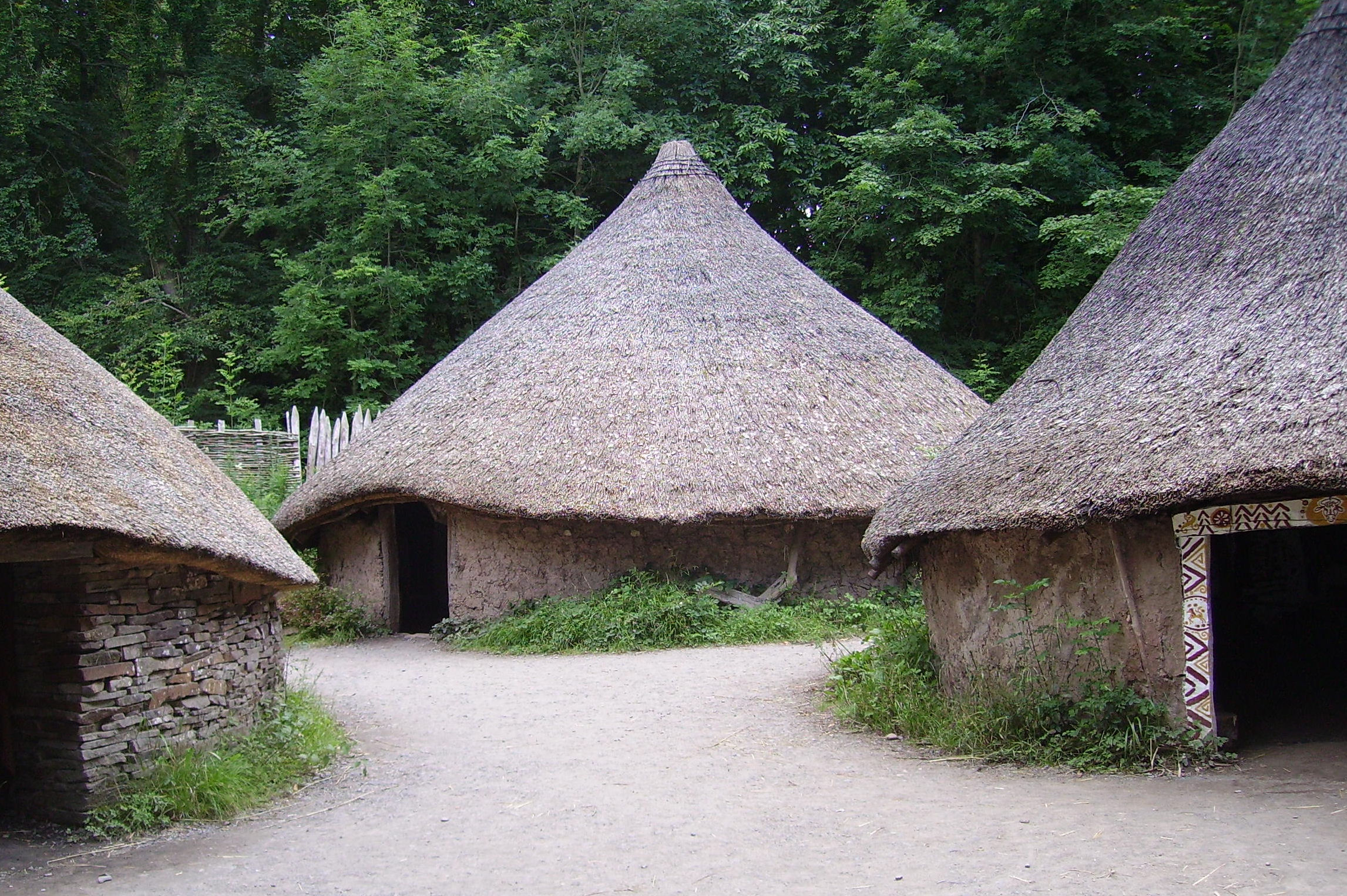 inside the Museum of Welsh Life at Cardiff in Wales